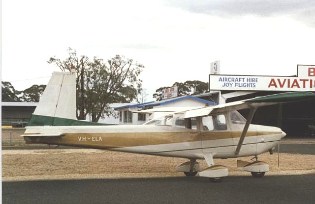 Aero Commander 100 at Bendigo airfield, Victoria, Australia